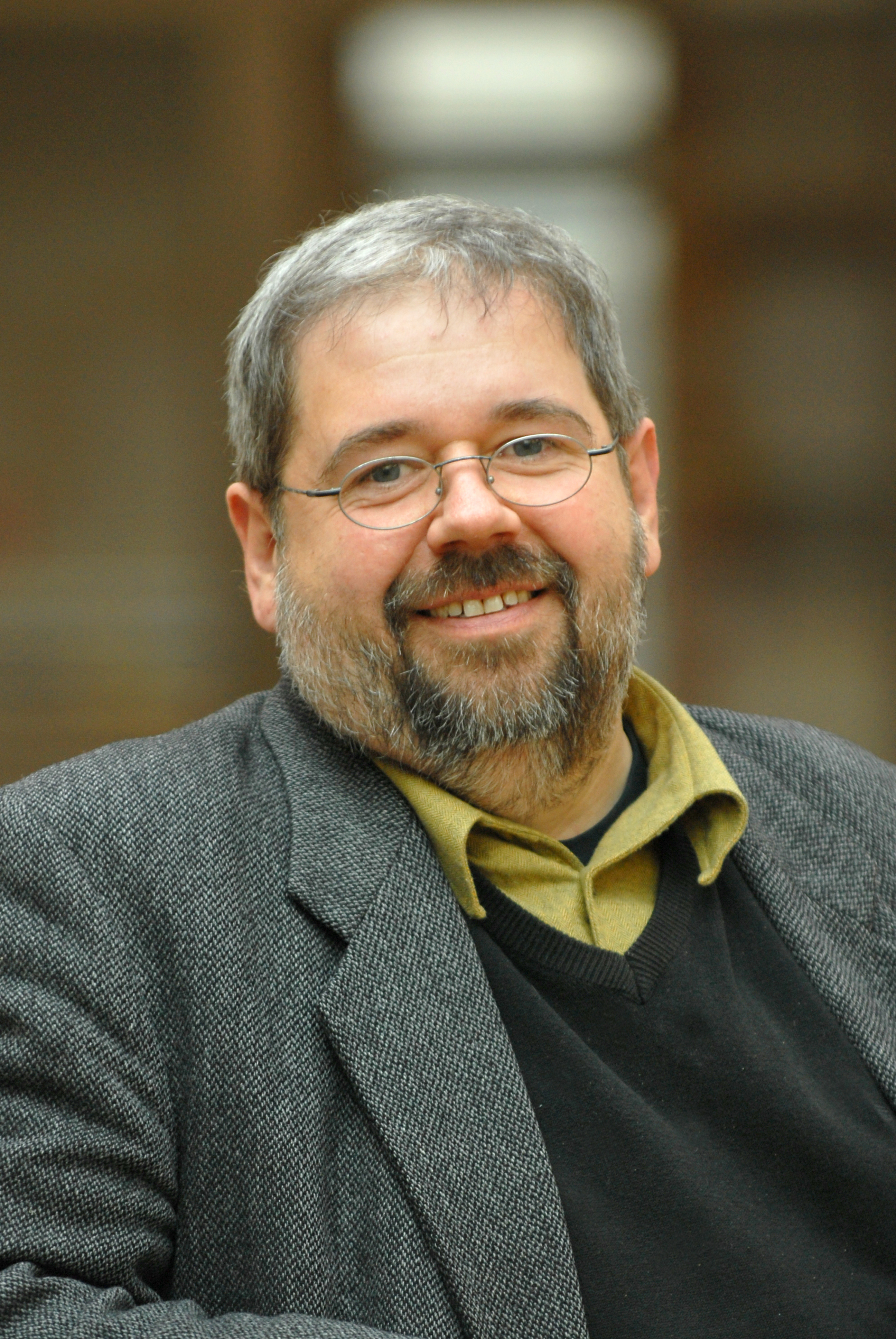 Prof.Dr. Wolfgang Georg Arlt in Fachhochschule Westküste